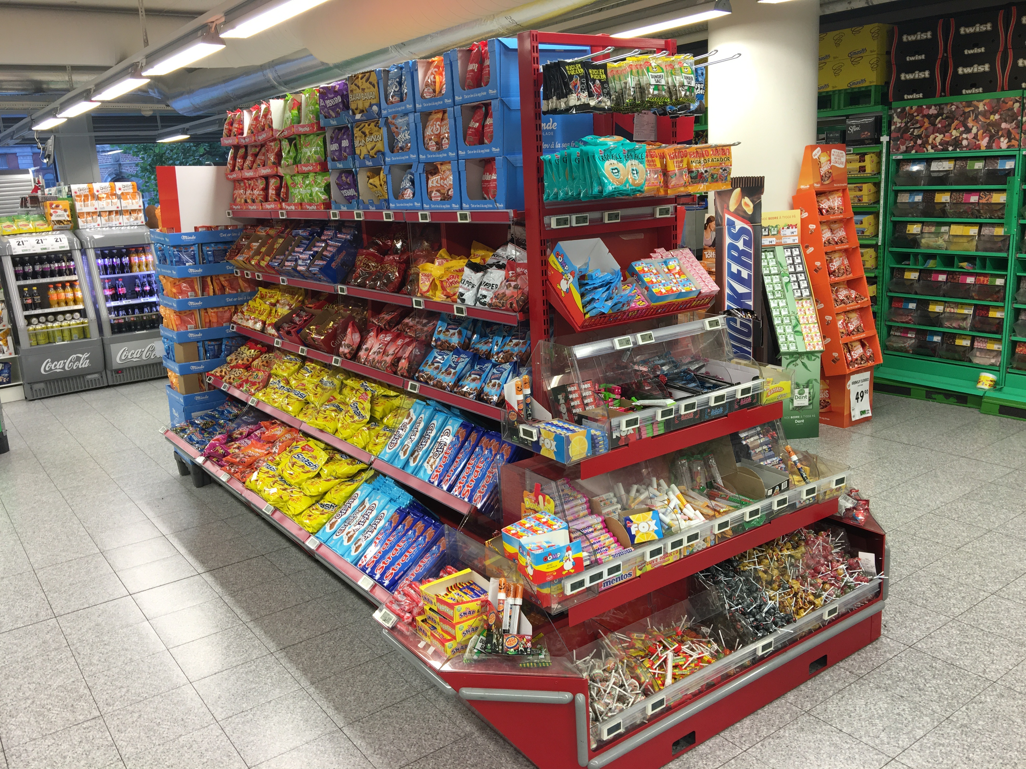 Confectionery and candy at display in Kiwi Allehelgensgate grocery store/supermarket in Bergen, Norway.